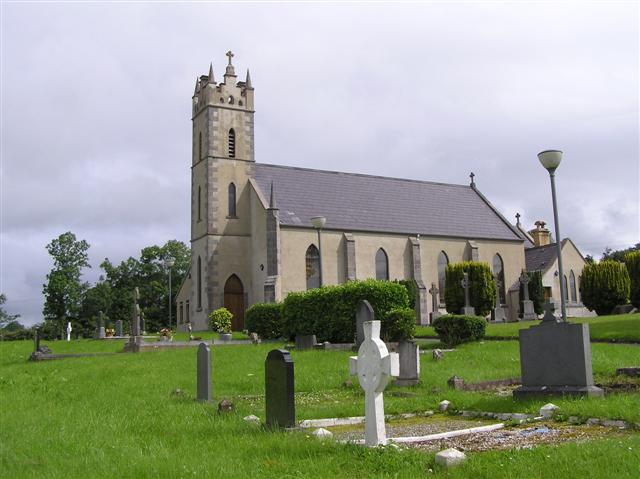 Arney RC Church It is located to the west of Bellanaleck